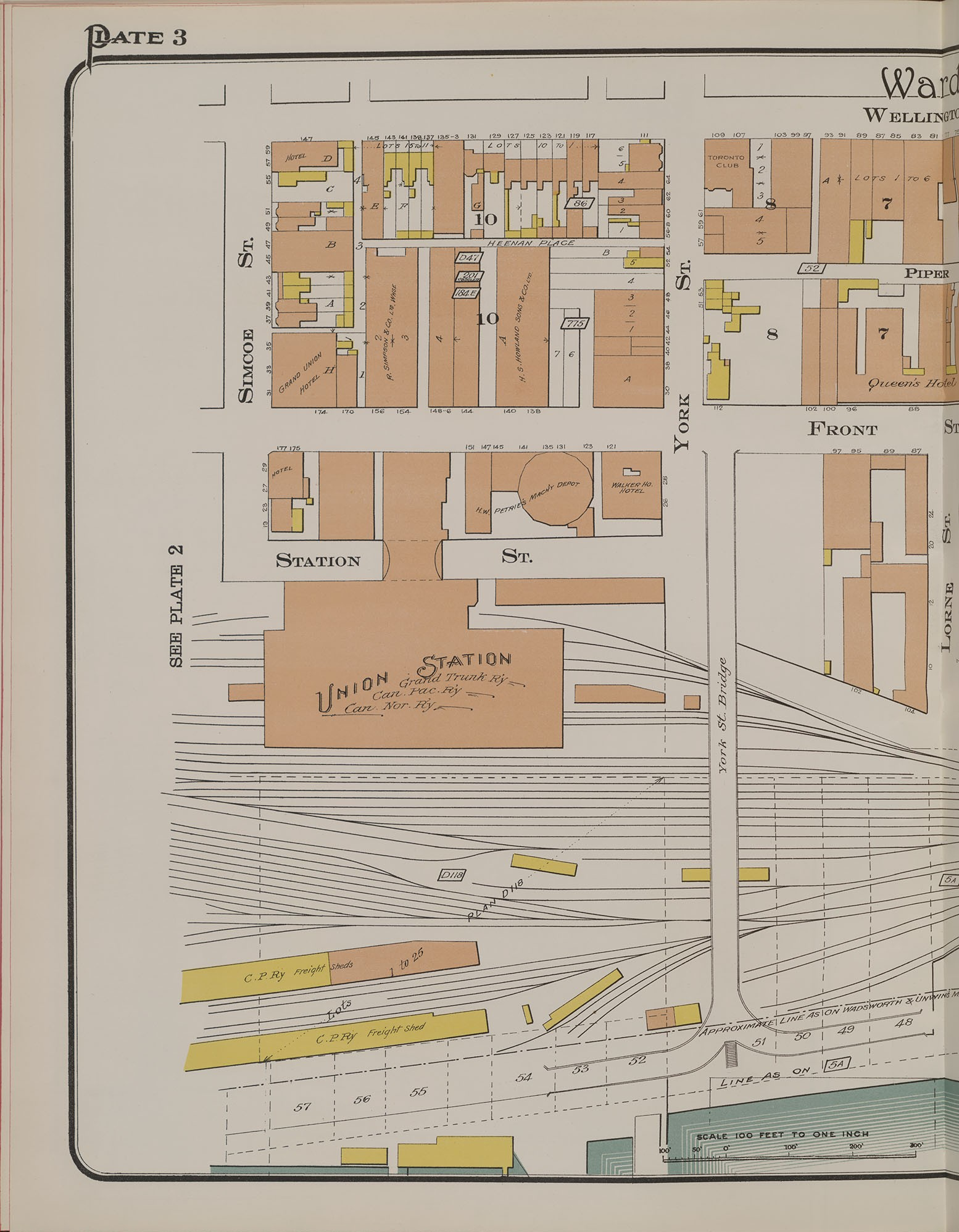 Atlas of the City of Toronto and suburbs, in three volumes, 1910. Third Edition. Volume 1, Plate 3, Item 16.